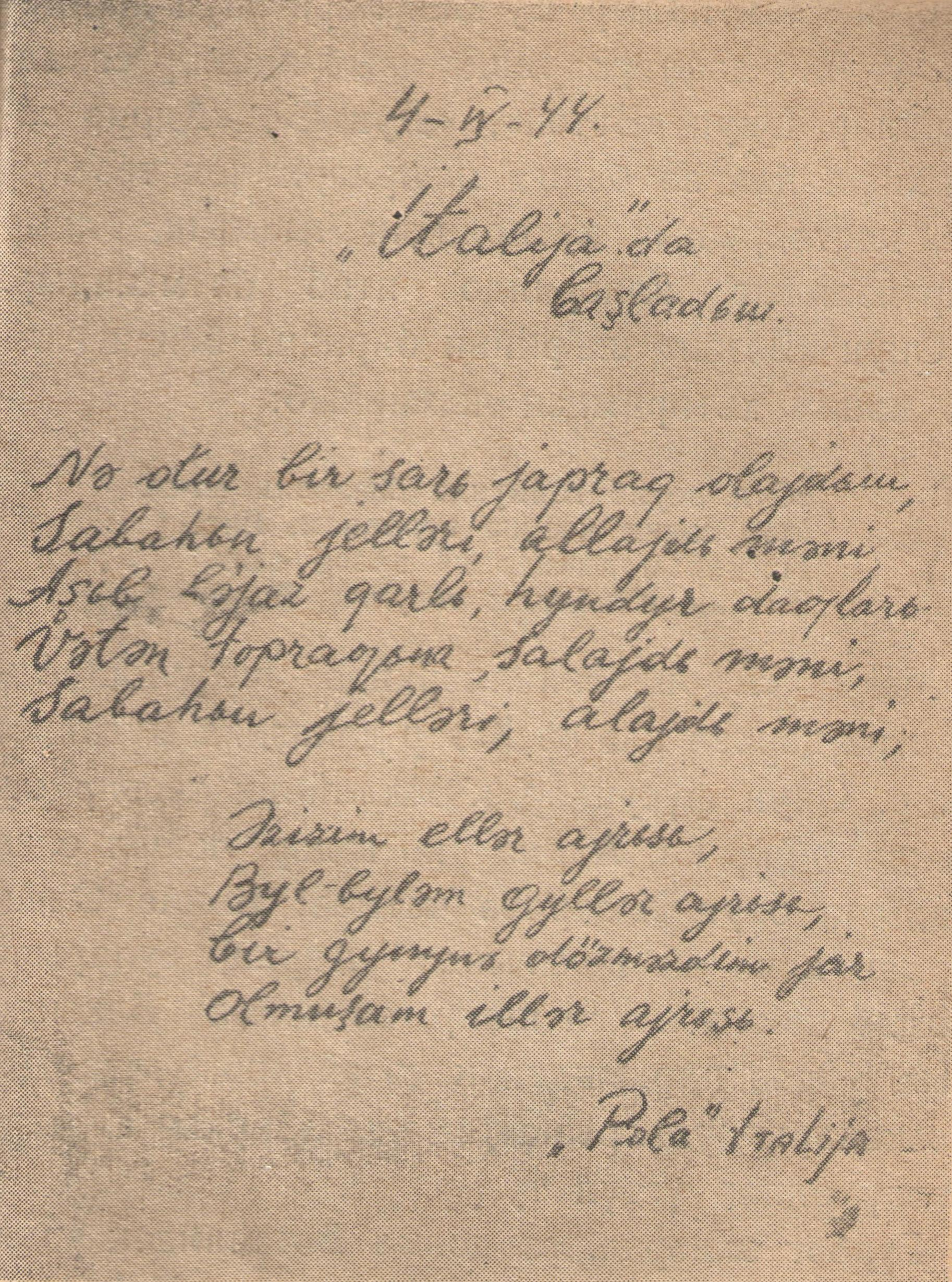 Poem by Mehdi Huseynzade (Italia, 1944)